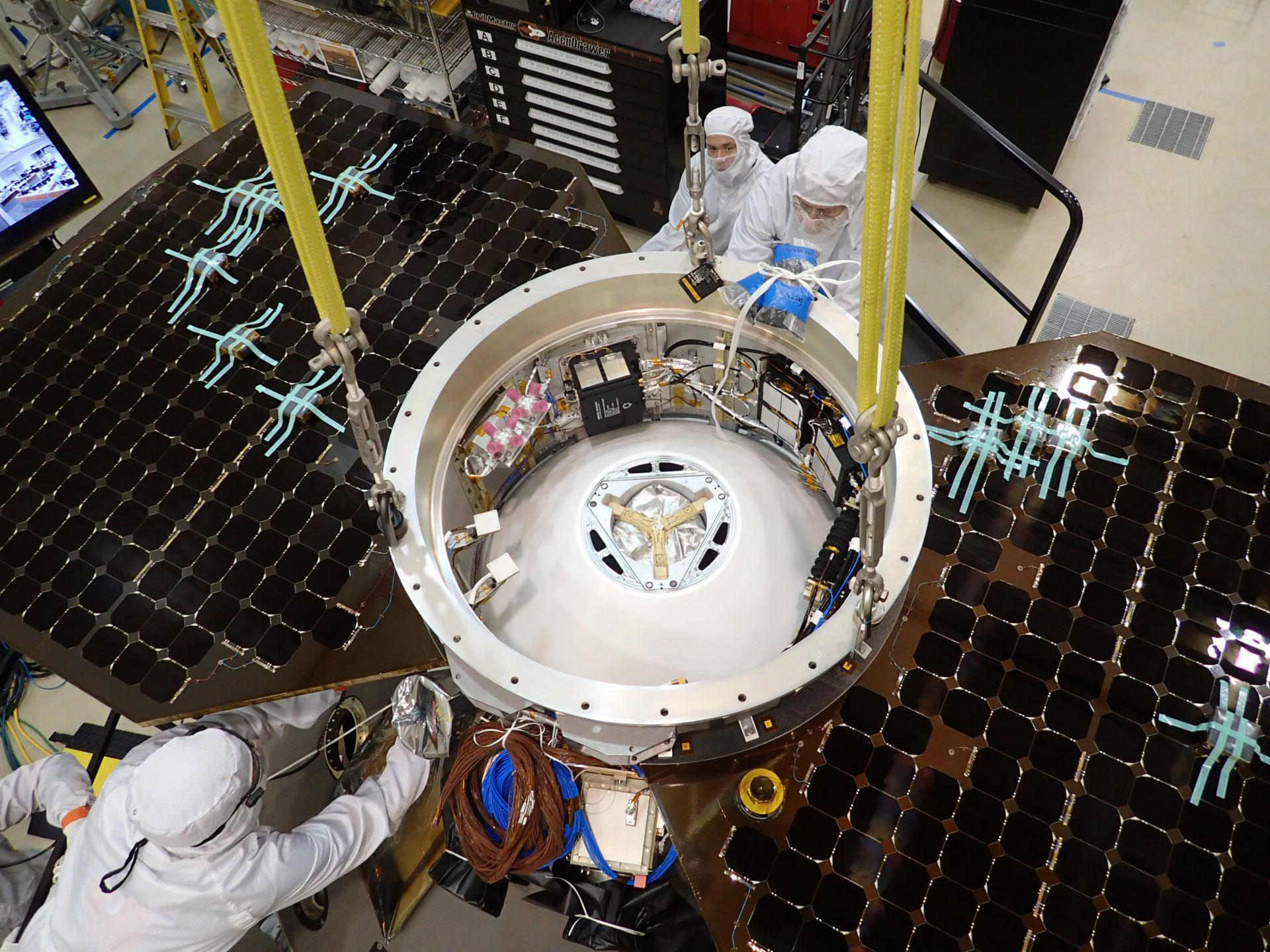 PIA19668: Top View of InSight's Cruise Stage This photo shows the upper side of the cruise stage of NASA's InSight spacecraft as specialists at Lockheed Martin Space Systems, Denver, attach it to the spacecraft's back shell. The photo was taken on April 29, 2015. The cruise stage will serve multiple functions during the flight from Earth to Mars. It has its own solar arrays, thrusters and radio antennas. It will be jettisoned shortly before the spacecraft enters the Martian atmosphere. InSight, for Interior Exploration Using Seismic Investigations, Geodesy and Heat Transport, is scheduled for launch in March 2016 and landing in September 2016. It will study the deep interior of Mars to advance understanding of the early history of all rocky planets, including Earth. The InSight Project is managed by NASA's Jet Propulsion Laboratory, Pasadena, California, for the NASA Science Mission Directorate, Washington. InSight is part of NASA's Discovery Program, which is managed by NASA's Marshall Space Flight Center in Huntsville, Alabama.